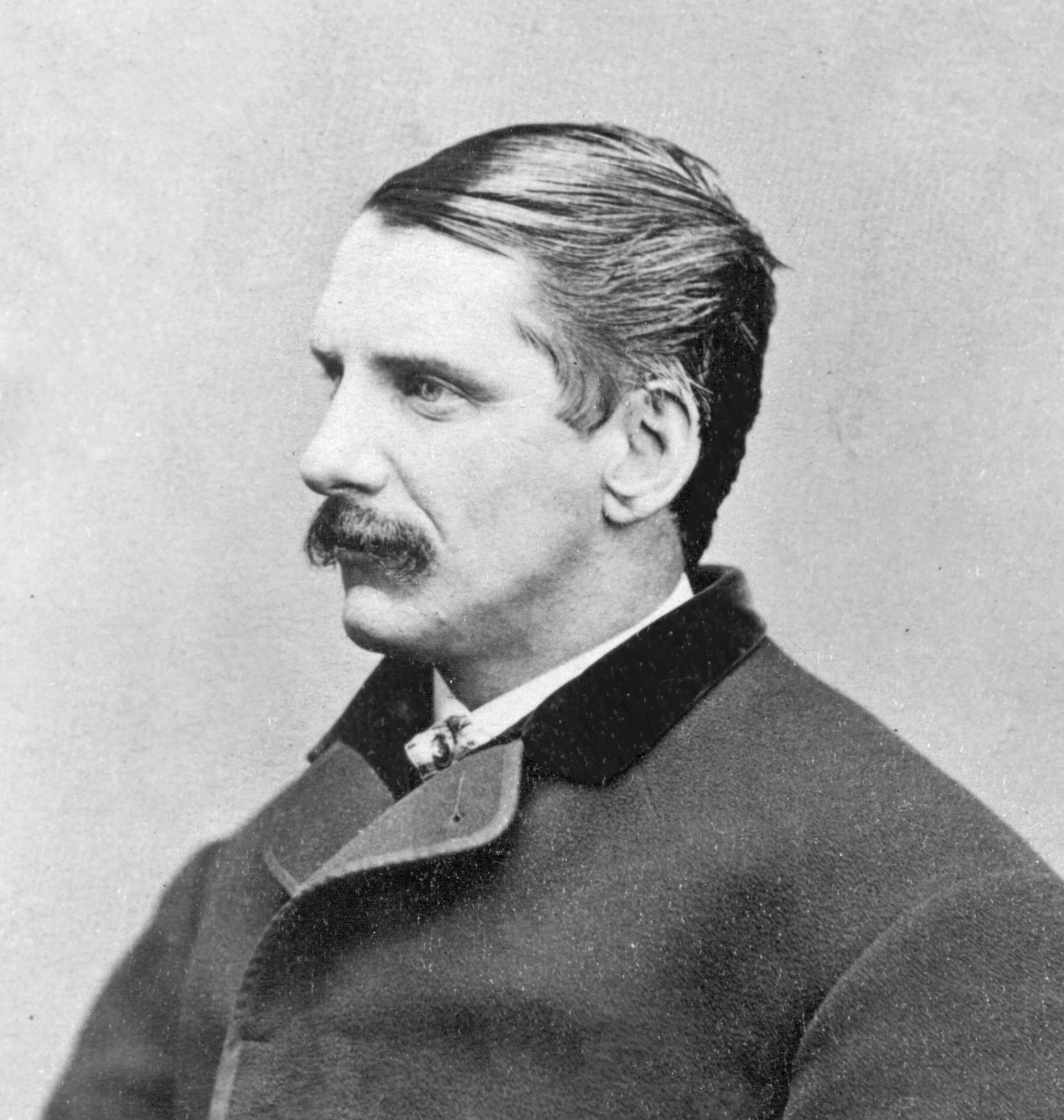 Edward Dicey (1832-1911), english journalist and writer Date: 1865 File: [1]